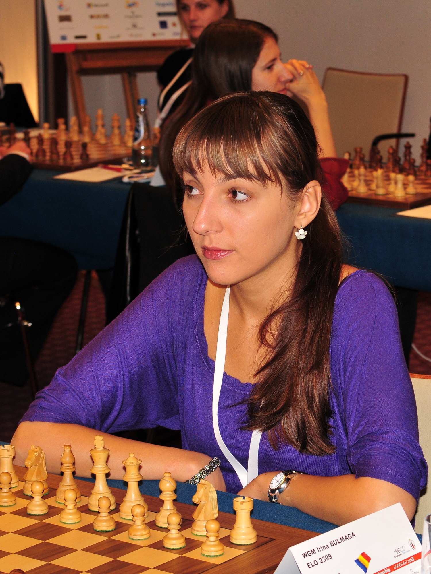 IM Irina Bulmaga, European Chess Team Championship Warsaw 2013